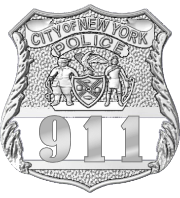 NYPD badge